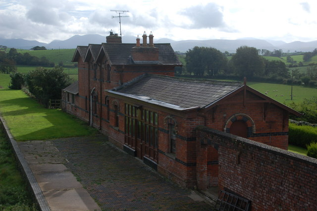 Old railway station at Ballyroney, Co Down The GNR(I) line from Knockmore Jct to Castlewellan closed in 1955. Ballyroney was one of the principal loading points for cattle bound for the ports of NW England. The station is a private house and part of the platform is now a lawn. Otherwise it remains more or less in its original condition. This is the view towards Castlewellan.